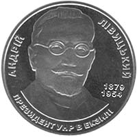 Coin of Ukraine